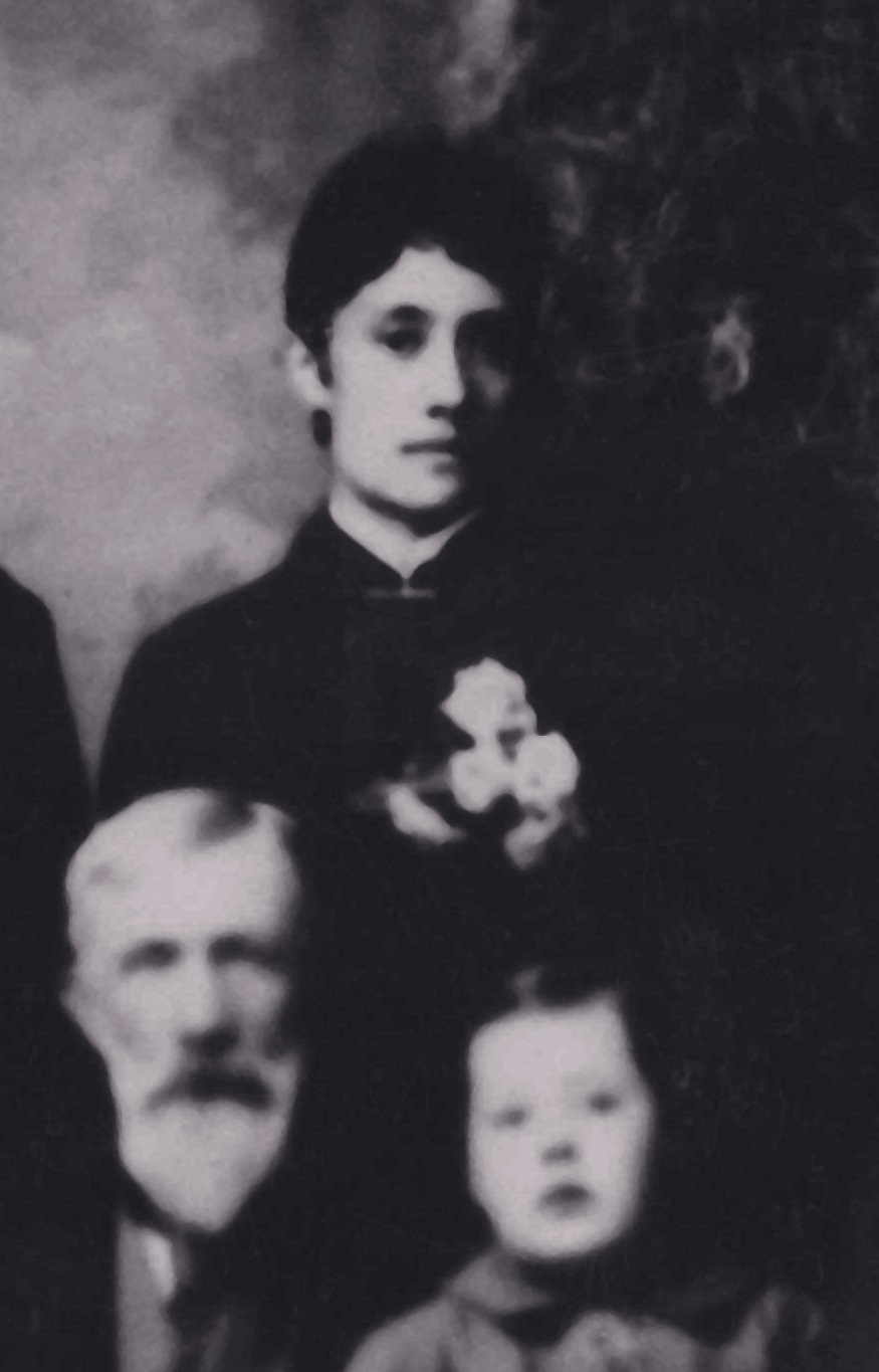 Hon. Hermann A. Widemann & Family, May 1886.